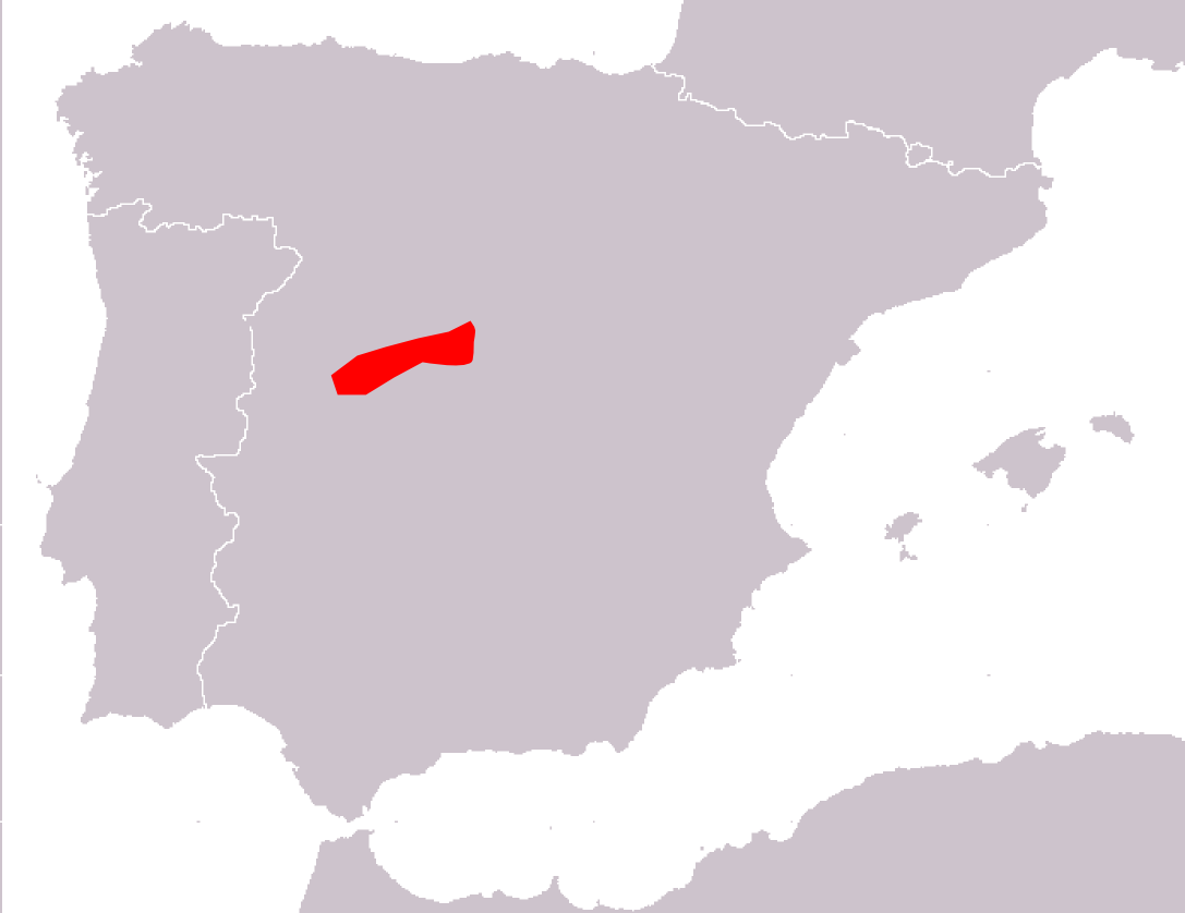 Iberolacerta cyreni range map.